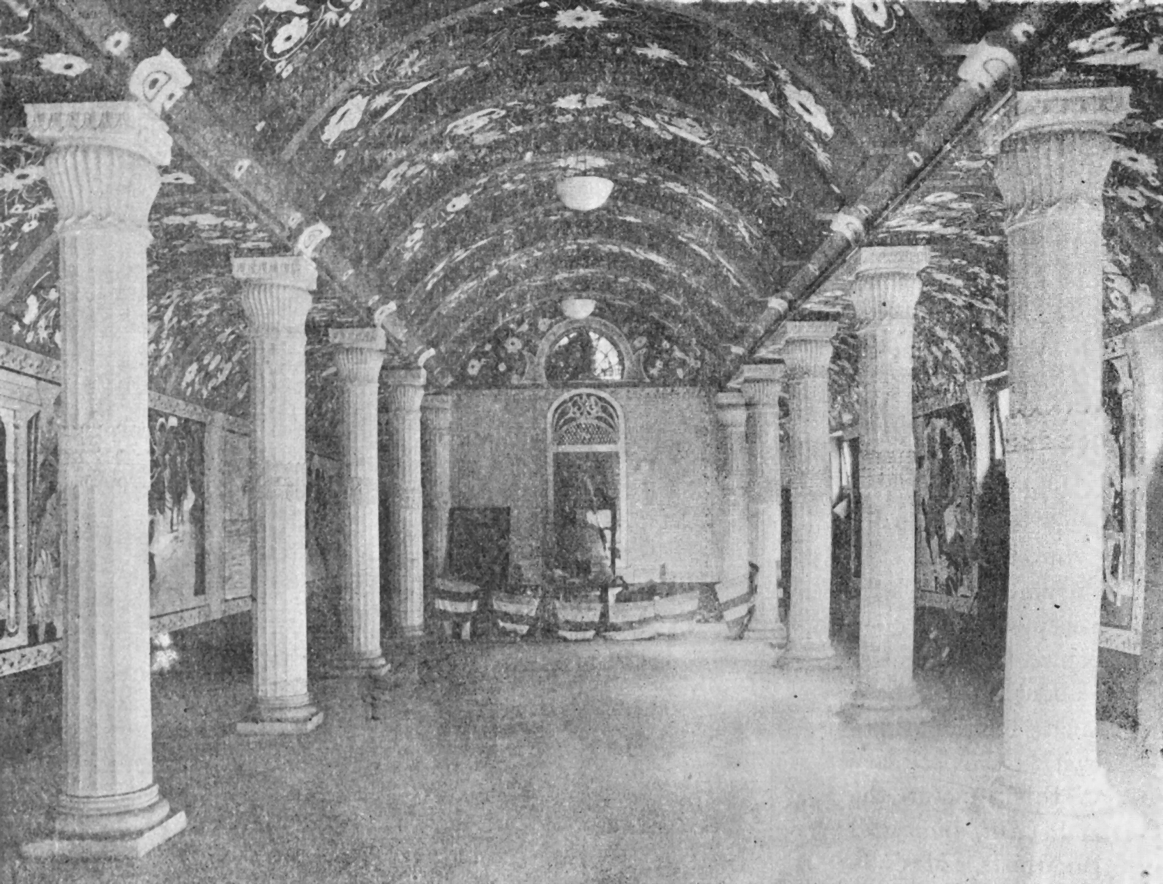 Interior of the Dharmarajika Chetiya Vihara of the Mahabodhi Society, officially opened 26th Nov 1920.